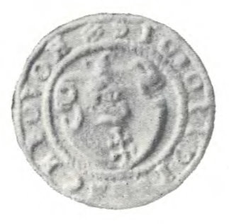 Seal of Grzybowo (nowadays part of Gniezno) from 16th century.